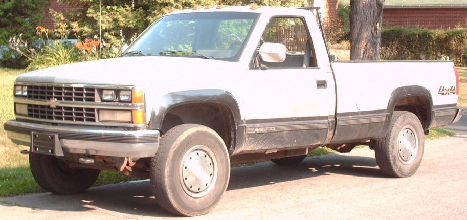 1991-1993 Chevrolet C/K photographed in Pointe Claire, Quebec, Canada.